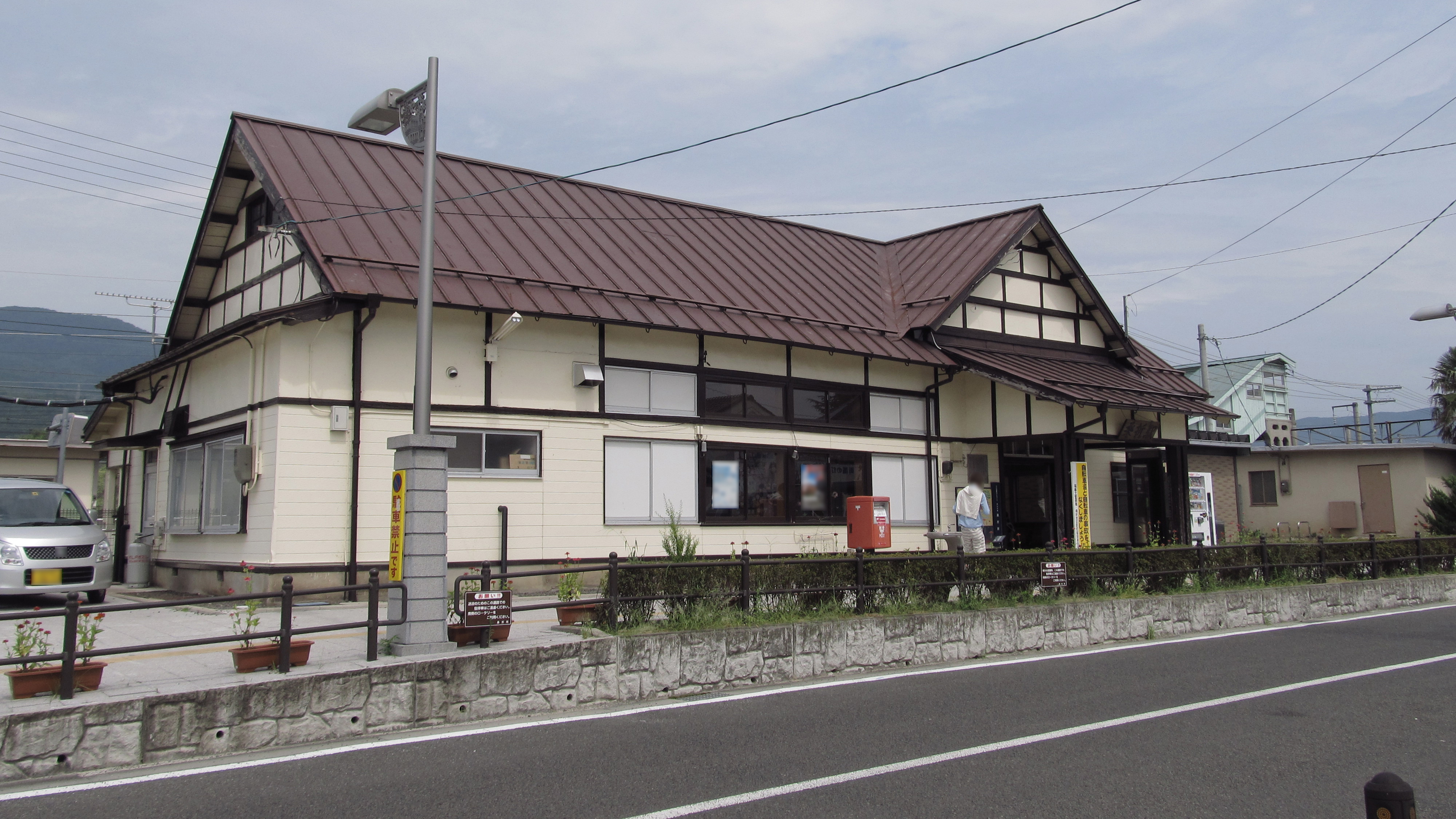 The building of Koori Station on the Tōhoku Main Line in Koori town, Fukushima prefecture, Japan